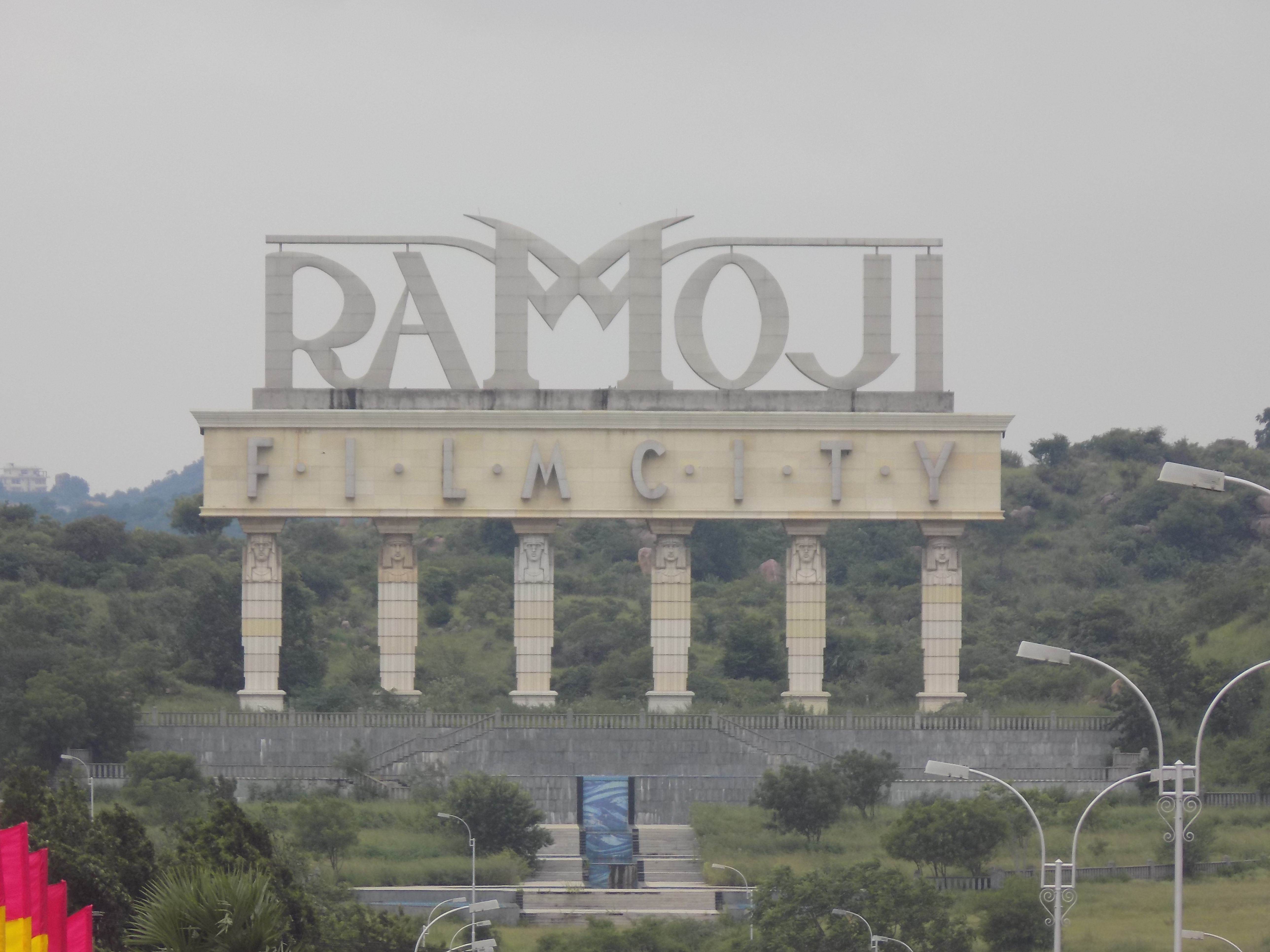 Sculpted name of Ramoji Film City at it's entrance.